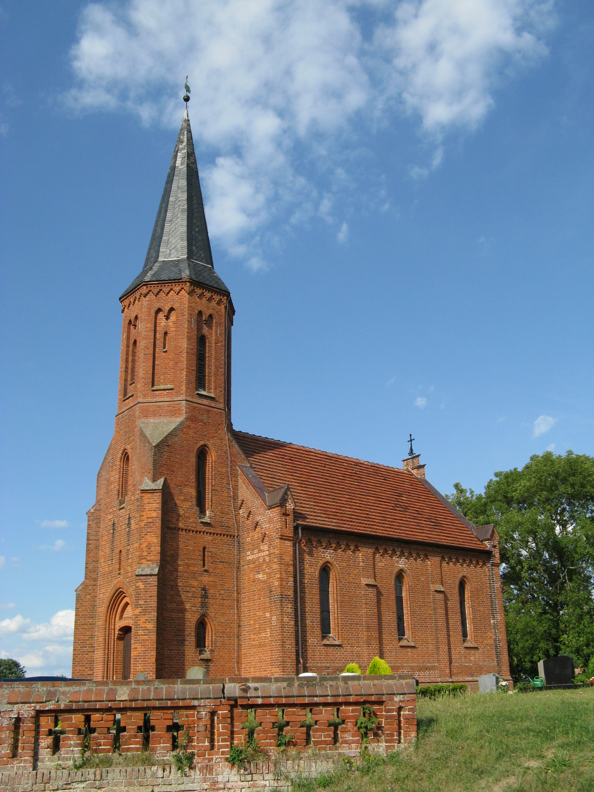 Church in Priborn, disctrict Mecklenburgische Seenplatte, Mecklenburg-Vorpommern, Germany